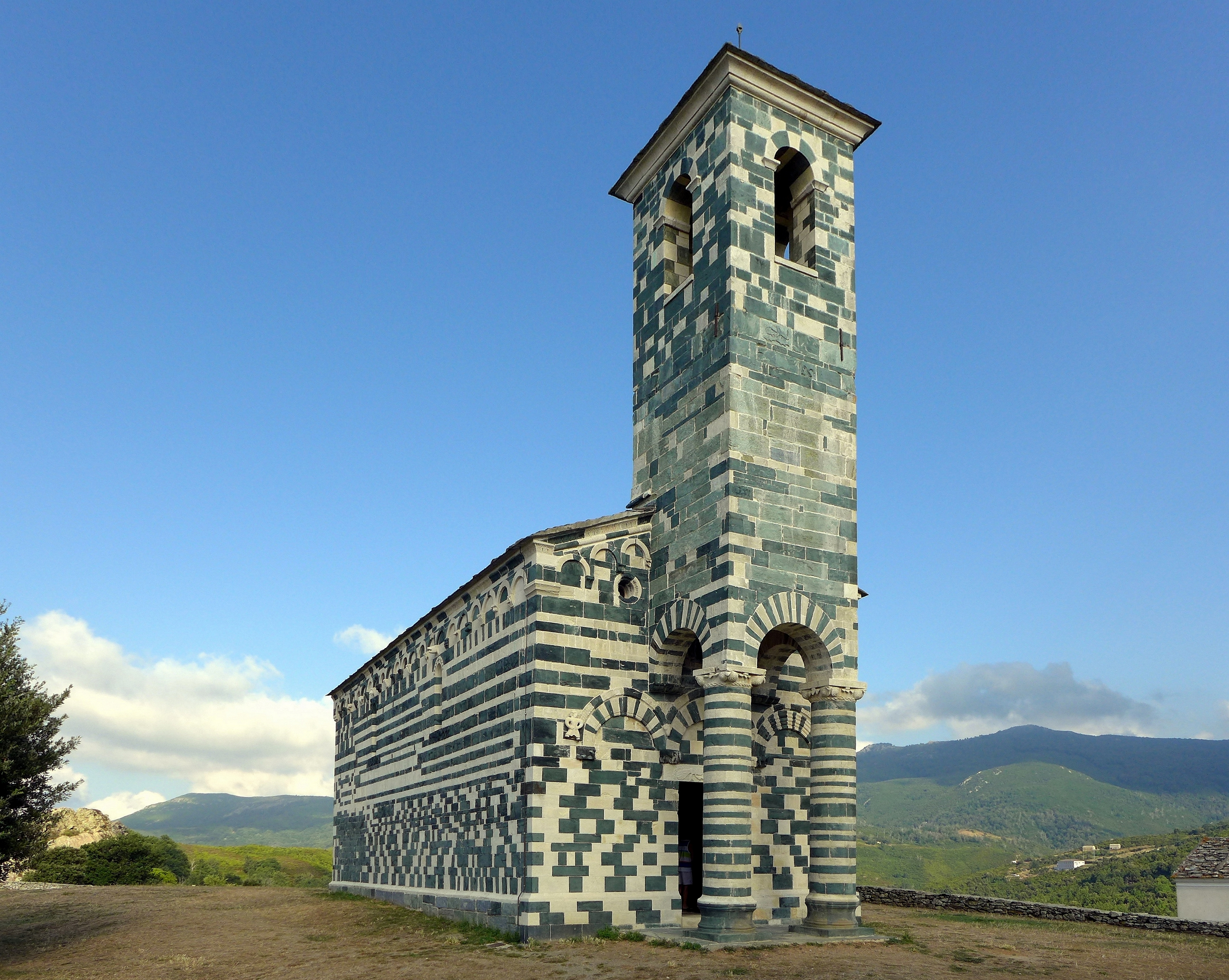 Murato (Corsica) - San Michele Church (12th century)